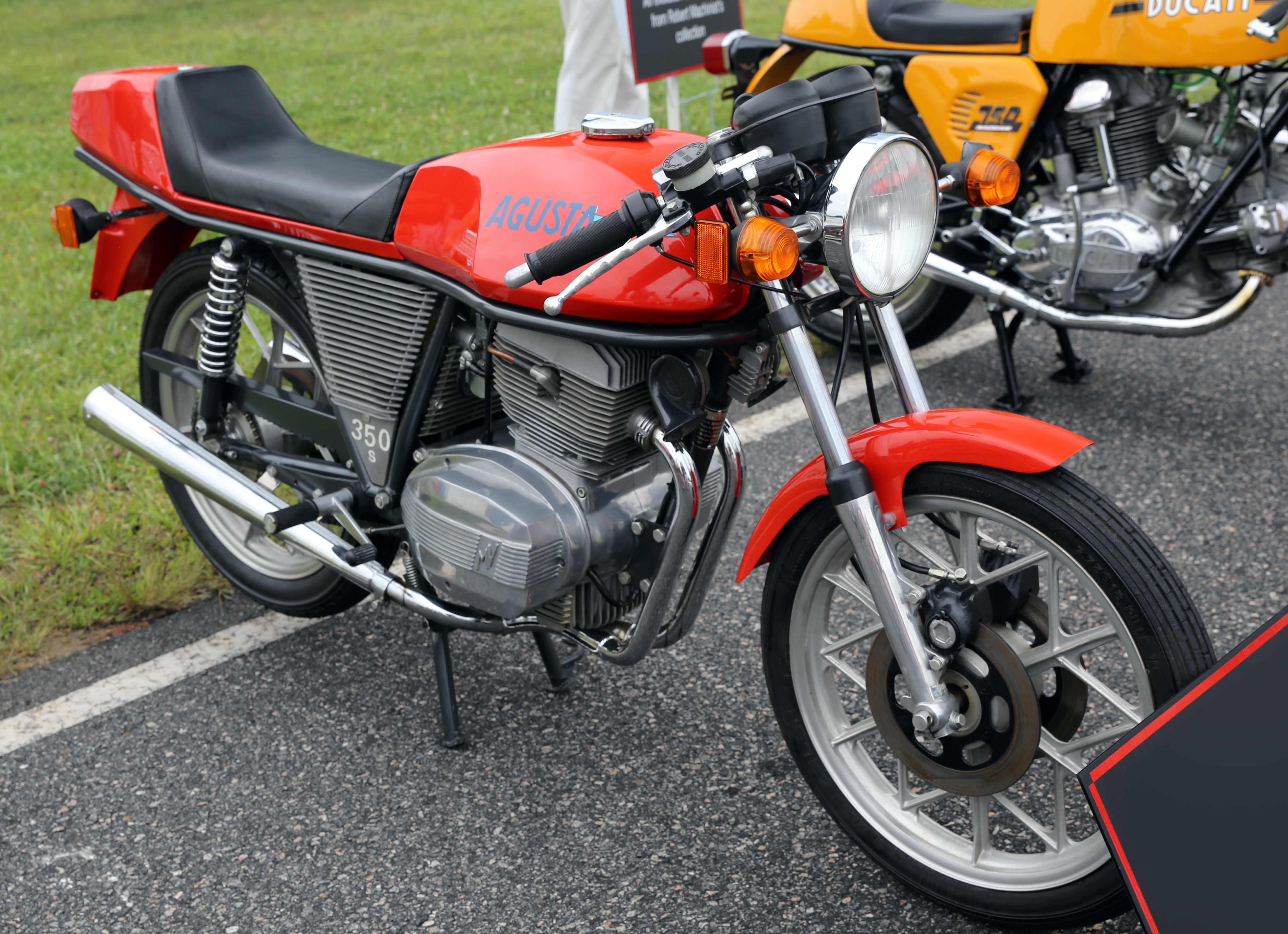 1975 MV Agusta 350 S seen at the 2014 Lime Rock Concours d'Élegance. 1,991 of these were built, with 29hp and a 170km/h top speed. Also nicknamed the "Ipotesi" after Giugiaro's original prototype. Part of the Robert Machinist collection.